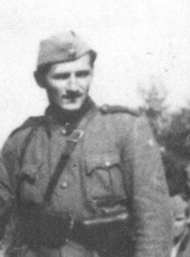 Marijan Cvetković